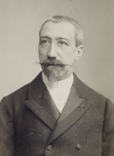 French writer Anatole France (1844-1924).